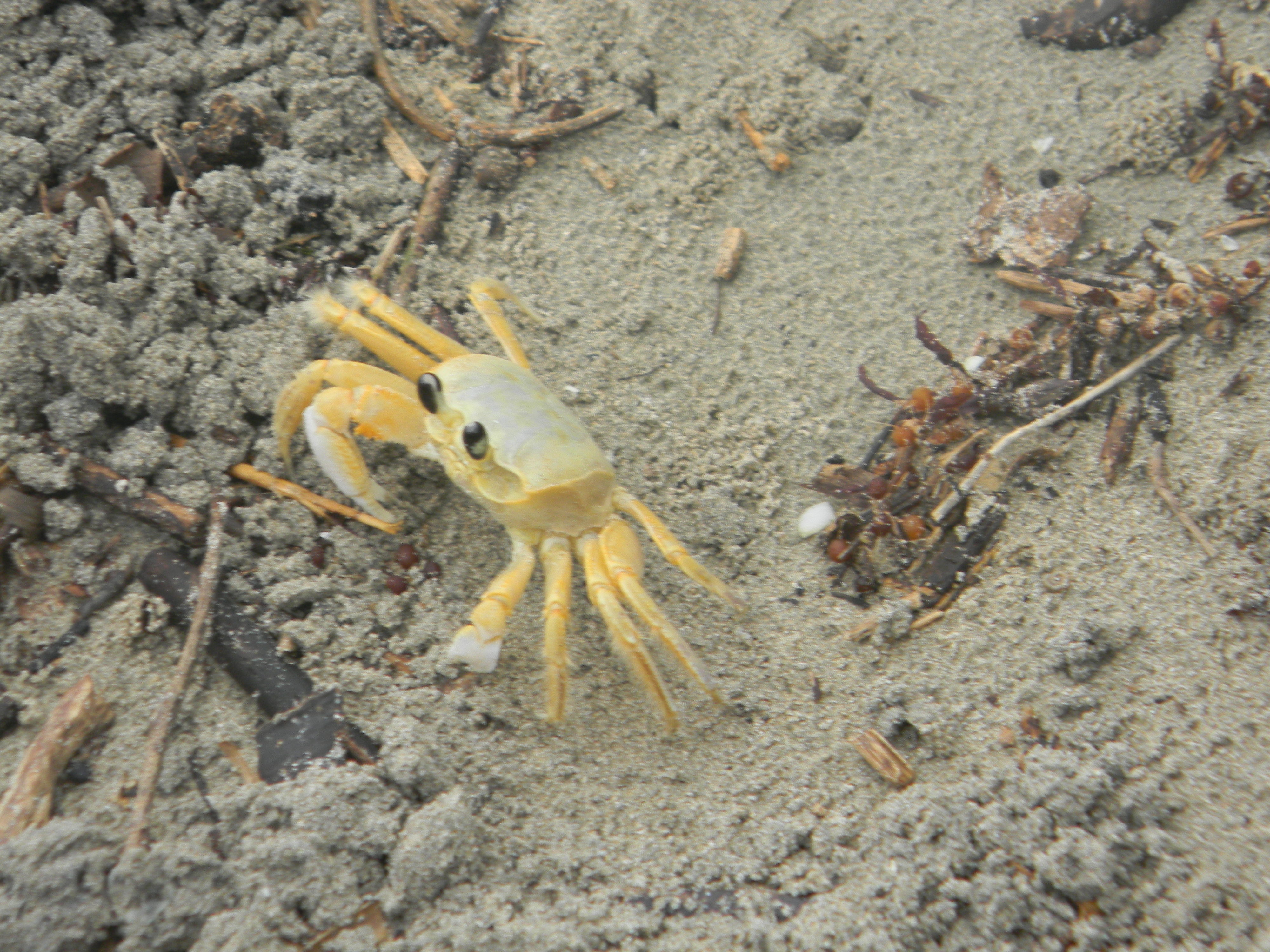 Atlantic ghost crab on Canimar River mouth, Cuba